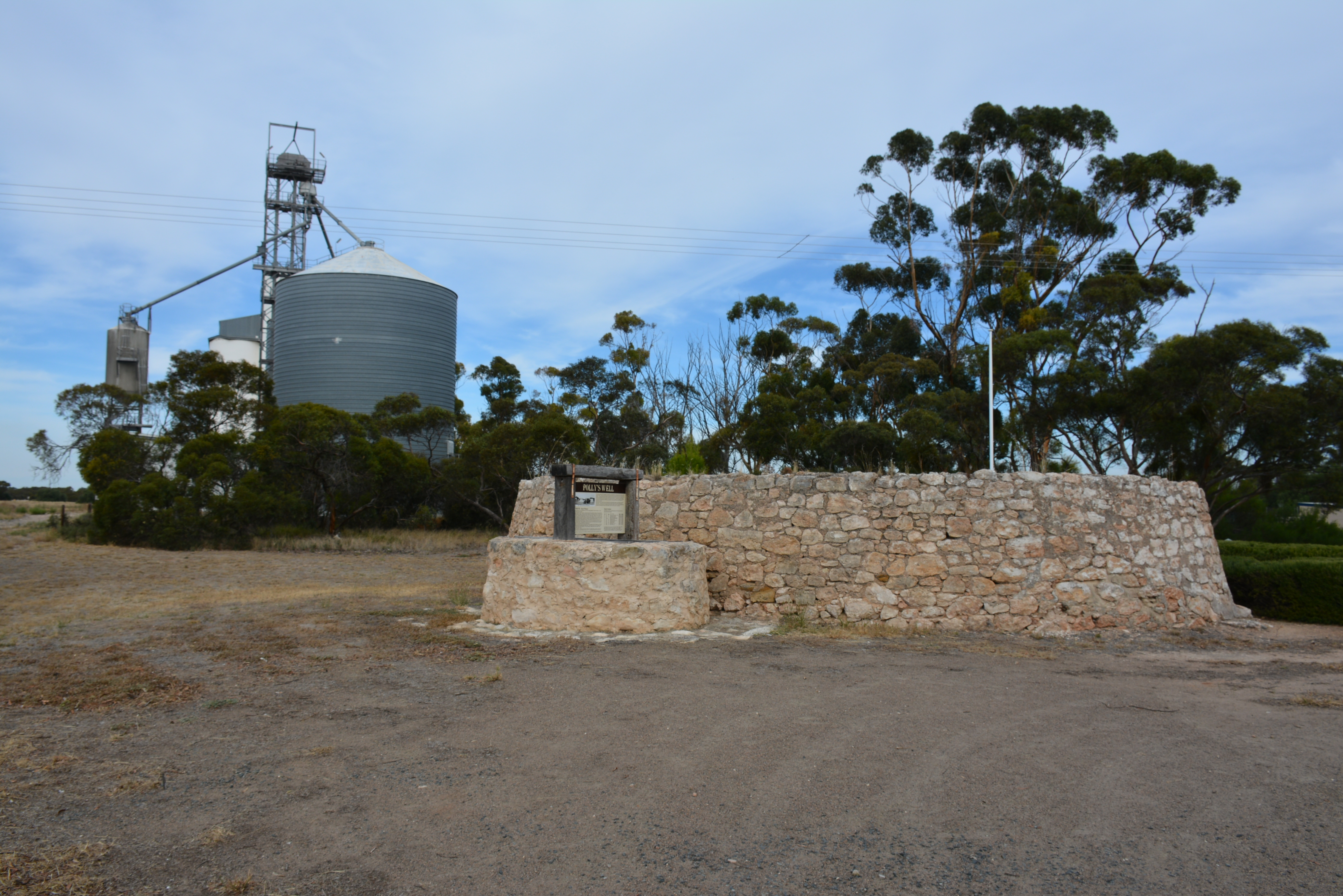 Polly's Well, which was dug in 1877 to provide water at Peake, South Australia. It is 16 metres deep, next to it is a large tank, made of limestone, to hold water brought up from the well.